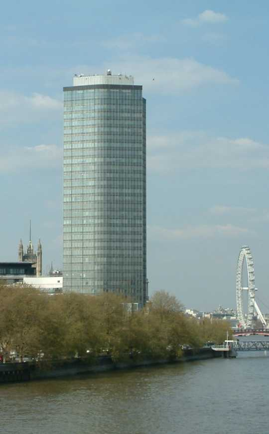 Millbank Tower - Millbank - Westminster. Taken from south, on Vauxhall Bridge, facing north.